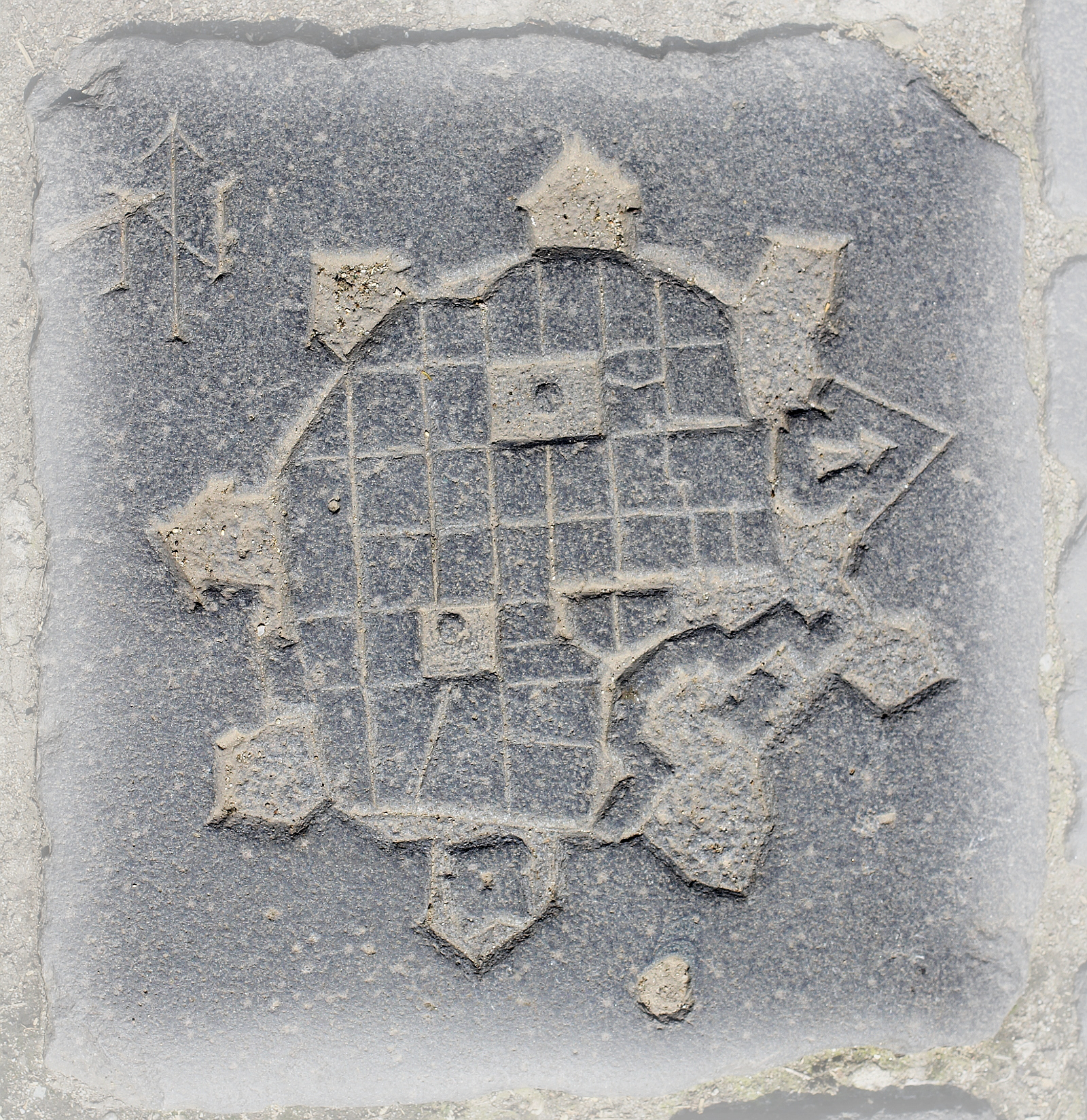 Map of the city fortress engraved in a cubic stone in Union Square Timisoara